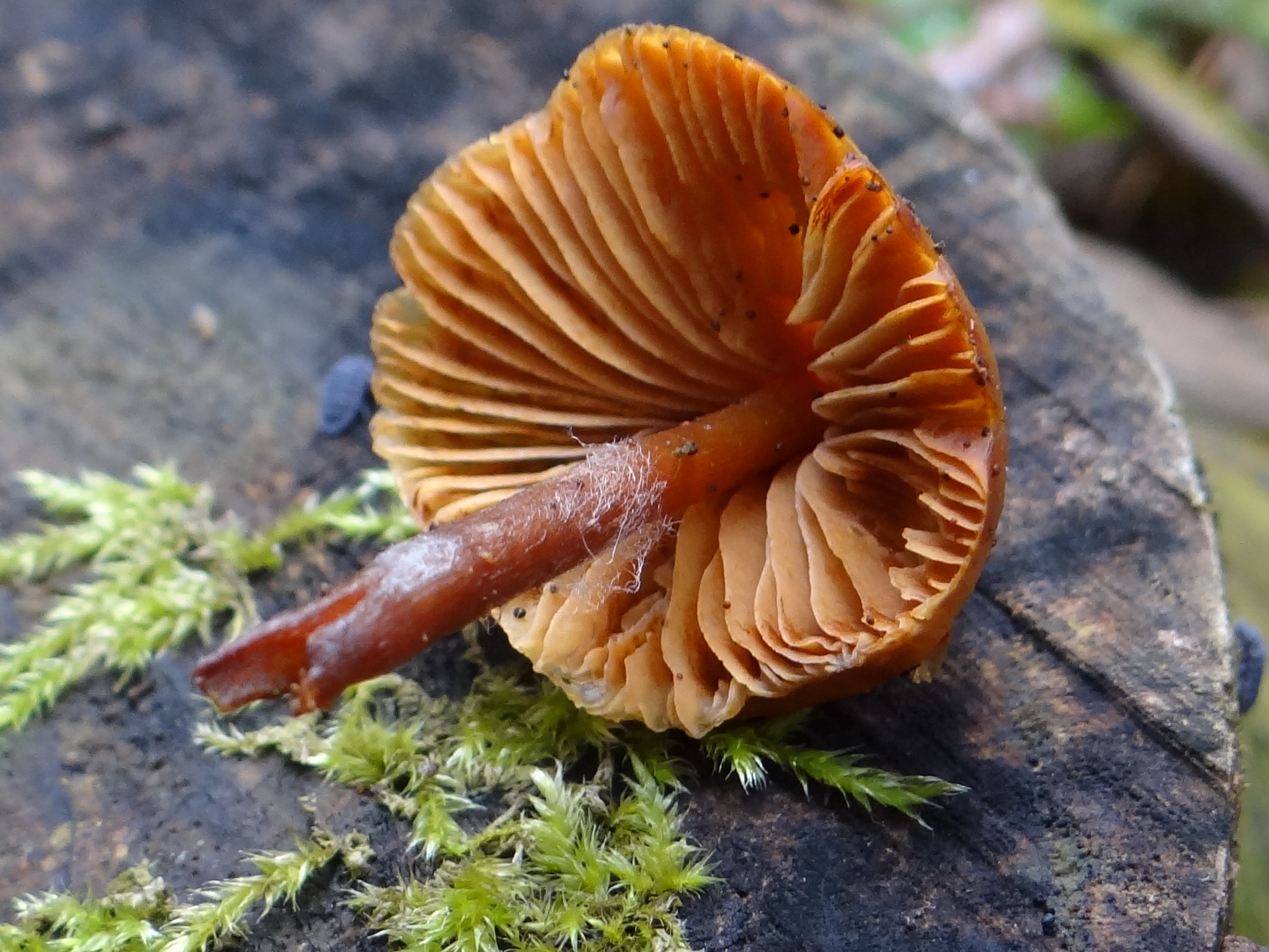 Phaeocollybia christinae